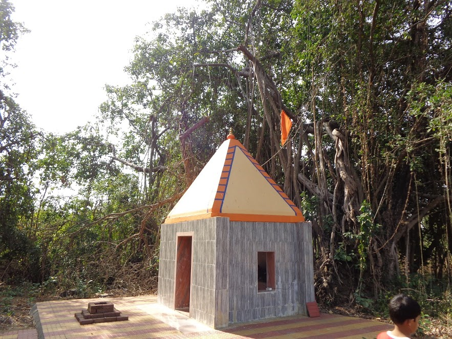 This is Shede Dev Temple.